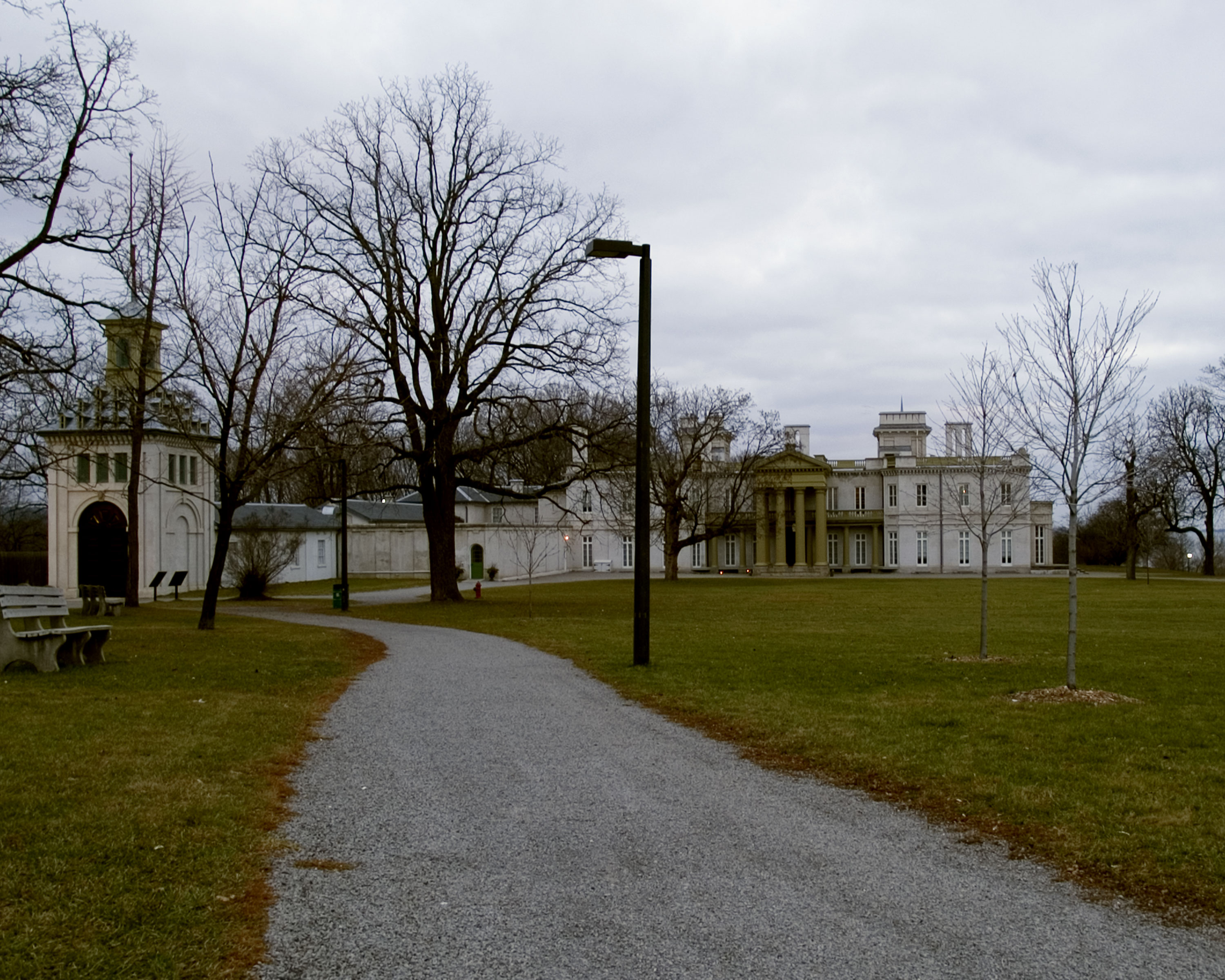 Hamilton's Dundurn Castle main building.